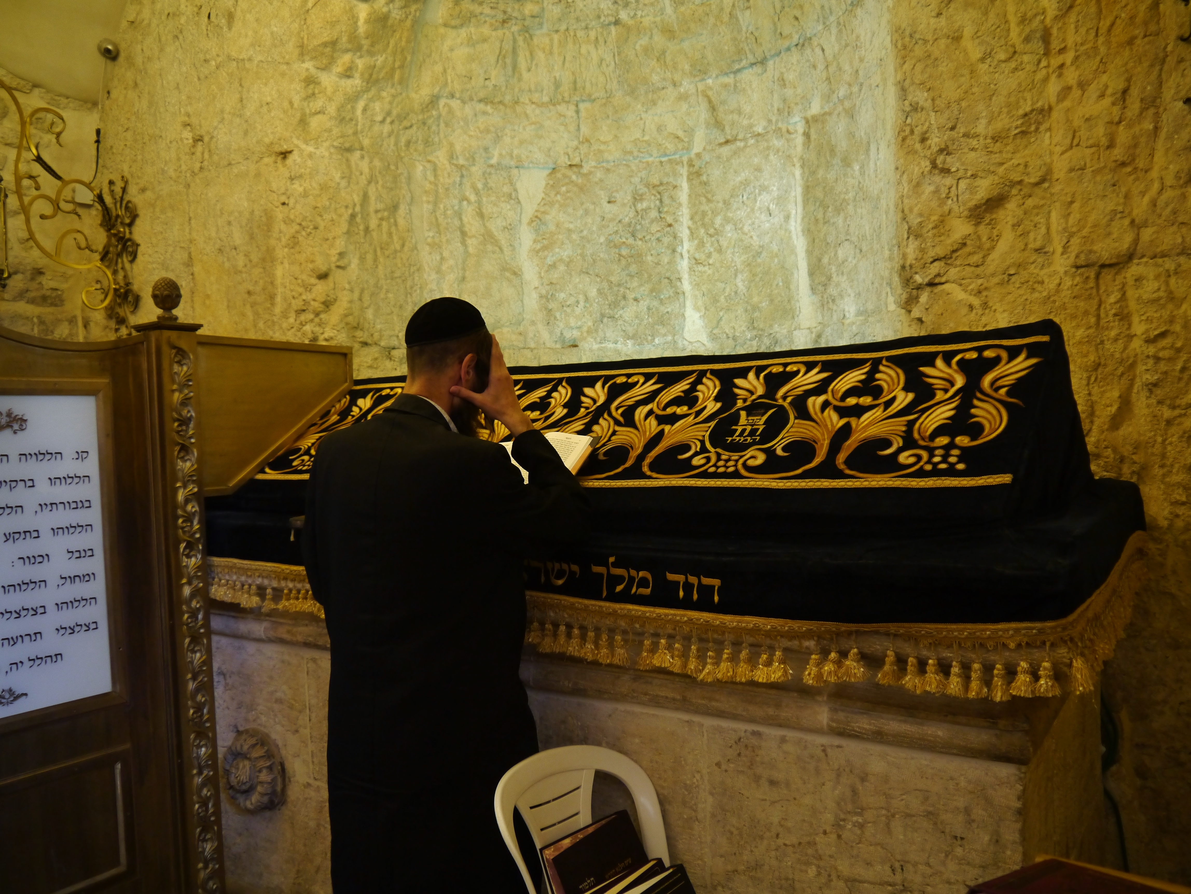 Tomb of King David, Jerusalem, Israel